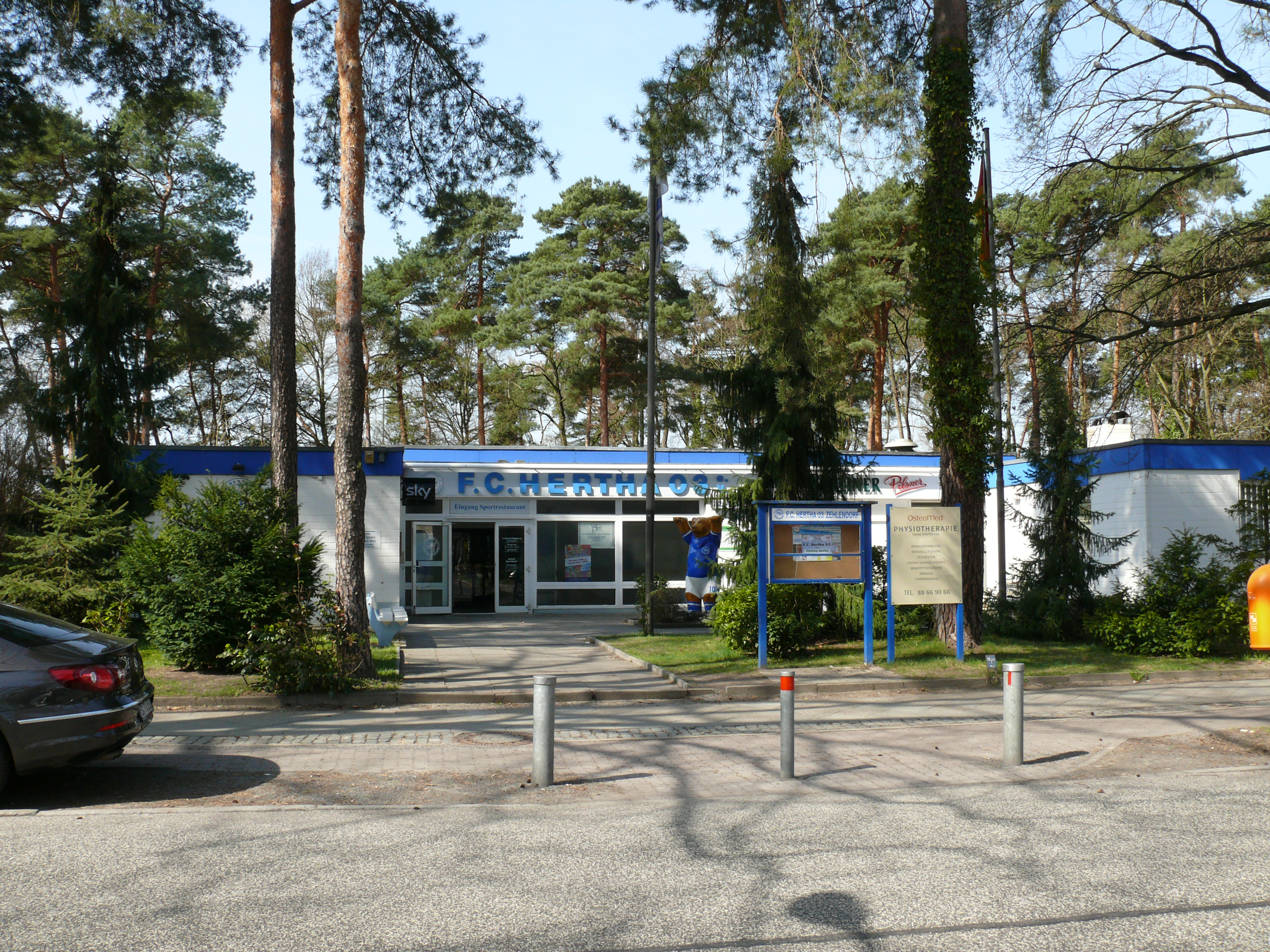 Berlin-Zehlendorf Onkel-Tom-Straße Hertha-Zehlendorf